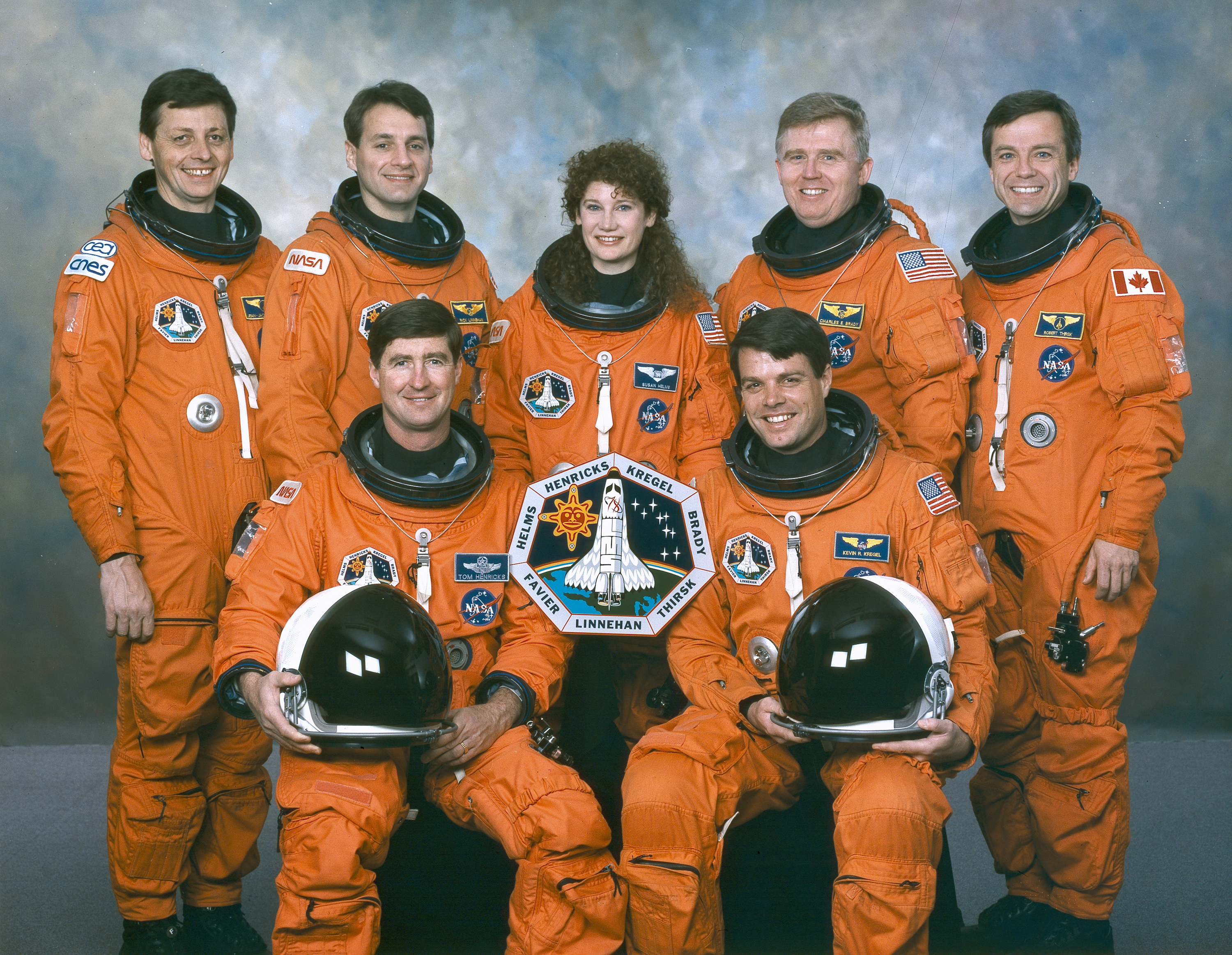 The crew assigned to the STS-78 mission included (seated left to right) Terrence T. (Tom) Henricks, commander; and Kevin R. Kregel, pilot. Standing, left to right, are Jean-Jacques Favier (CNES), payload specialist; Richard M. Linneham, mission specialist; Susan J. Helms, payload commander; Charles E. Brady, mission specialist; and Robert Brent Thirsk (CSA). Launched aboard the Space Shuttle Columbia on June 20, 1996 at 10:49:00 am (EDT), the STS-78 mission's primary payloads was the Life and Microgravity Spacelab (LMS). Five space agencies (NASA/USA, European Space Agency/Europe (ESA), French Space Agency/France, Canadian Space Agency /Canada, and Italian Space Agency/Italy) along with research scientists from 10 countries worked together on the design, development and construction of the LMS.